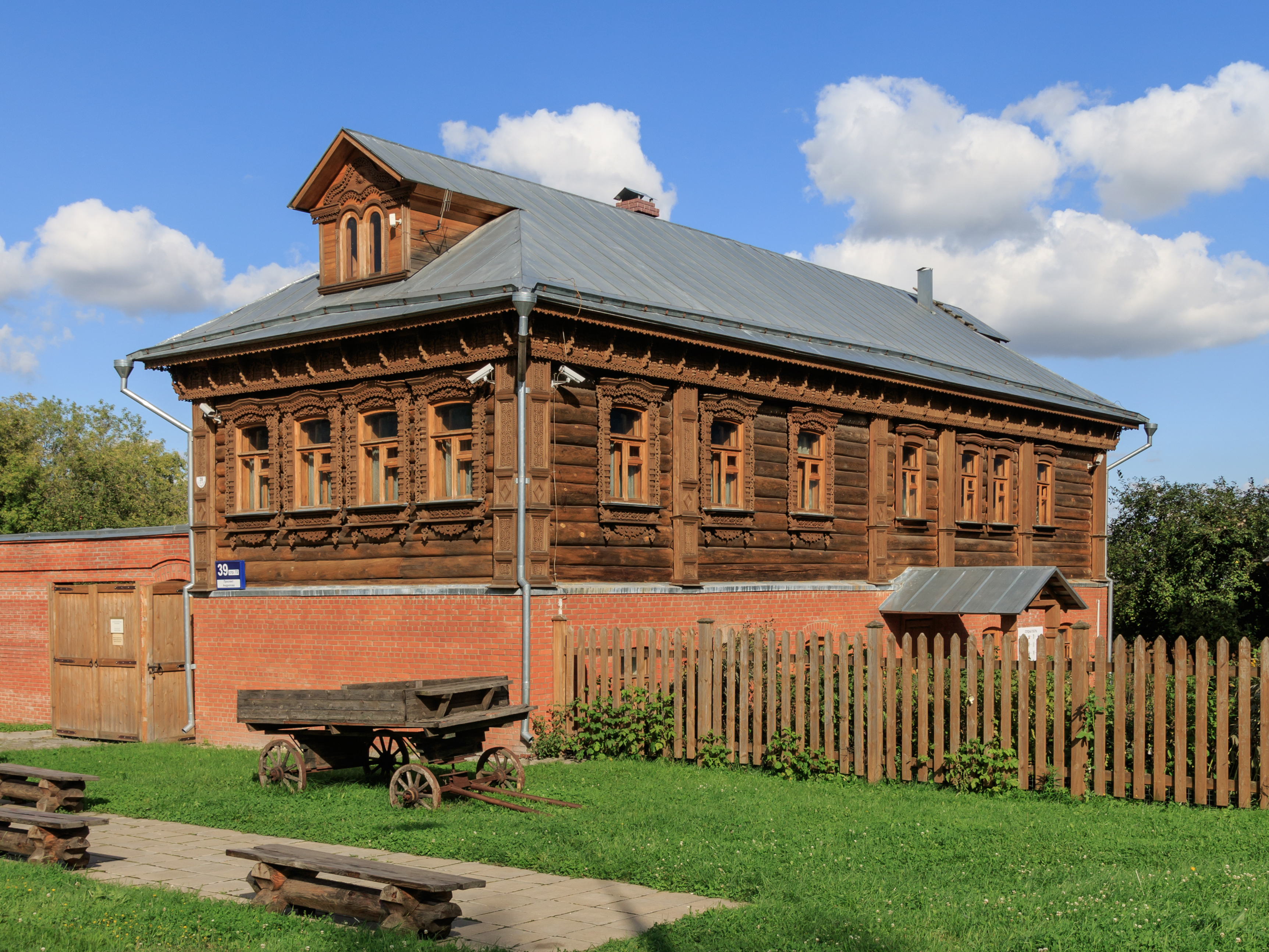 Restored wooden farmhouse in Kolomenskoe Park. Moscow, Russia.